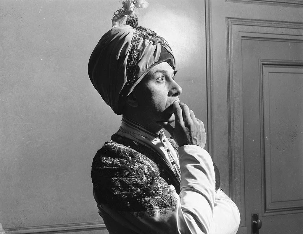 Actor Jose Ferrer in costume at Maple Leaf Gardens, Toronto, Ontario, Canada.